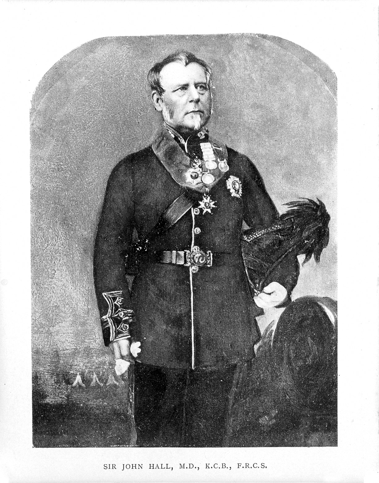 Portrait of J. Hall General Collections Keywords: Sir John Hall